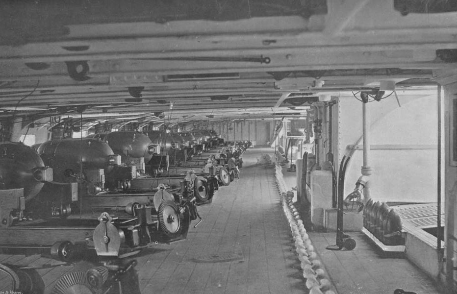 Photograph showing gundeck of British battleship HMS Northumberland. The guns are RML 8 inch 9 ton.